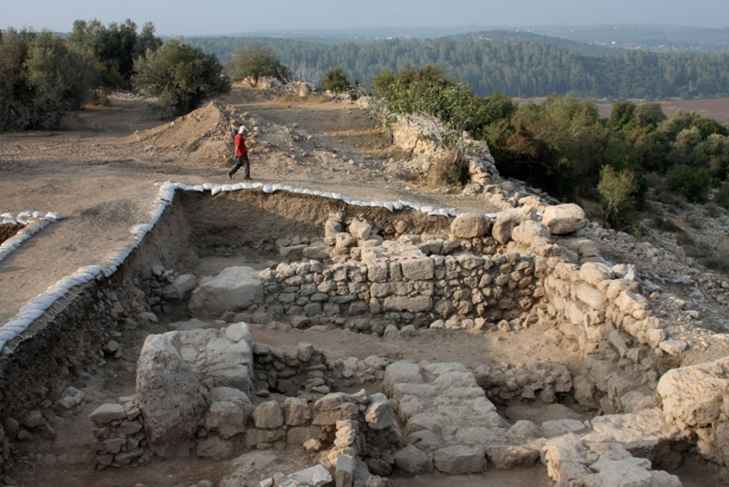 Qeiyafa_western_gate1